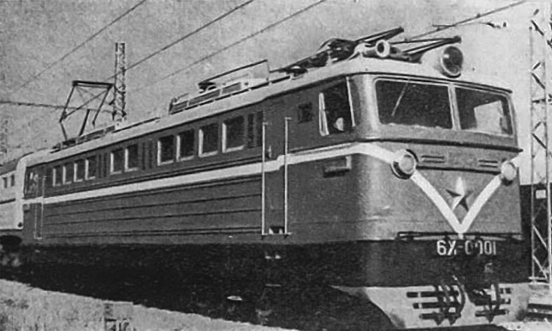 The first China Railways 6Y1 electric locomotive on test in 1959.